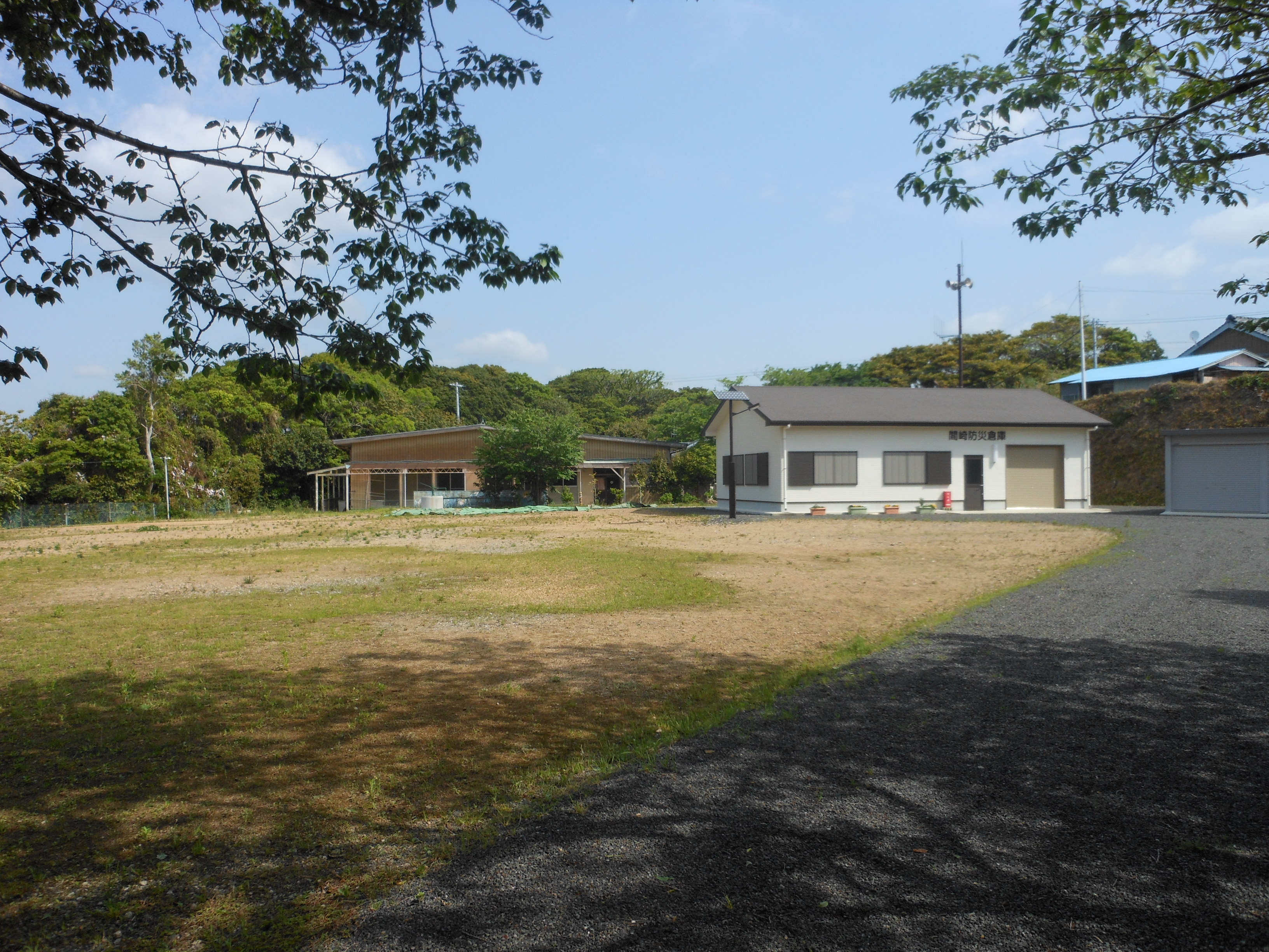 This is Wagu Elementary School Masaki Branch in Masaki island, Mie, Japan.